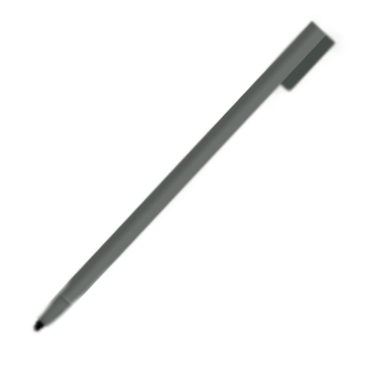 Author: Ashton Zanecki Source: N/A (None) This is a Stylus used on the touch screen to control characters or objects in a game